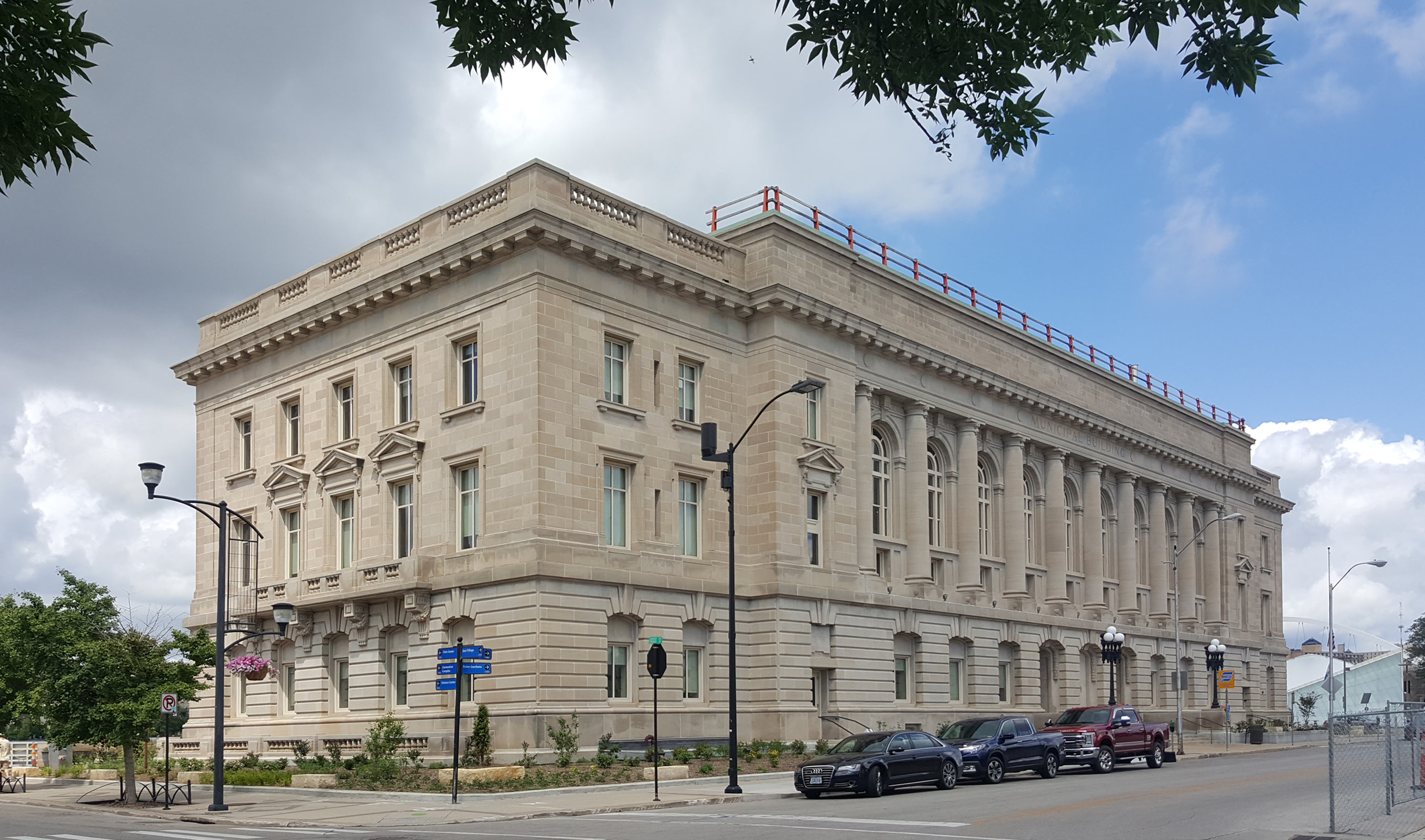 Southeast view of the Des Moines Municipal Building